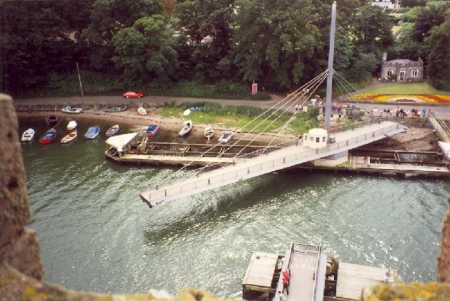 Swing bridge at Caernarfon. This bridge over the Afon Seiont is here seen from the walls of the castle in 1993. It replaced a bridge a little way downstream.